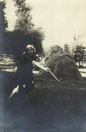 Bulgaria